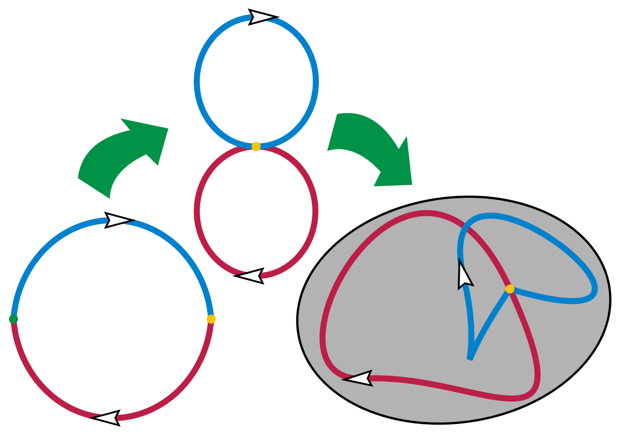 Addition of circle maps, S1 → S1 ⋁ S1 –ƒ⋁g→ RP2